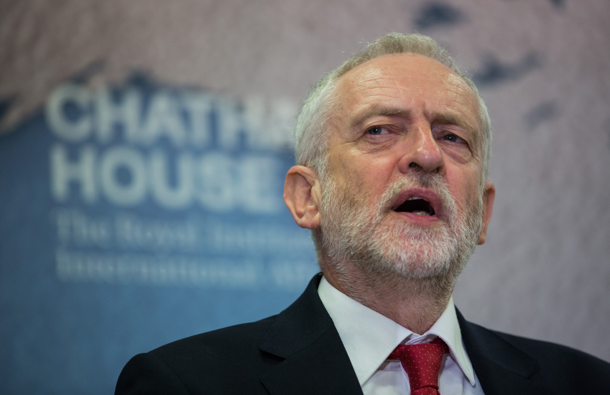 Rt Hon Jeremy Corbyn, Leader of the Labour Party, UK Outlining Labour's Defence and Foreign Policy Priorities, 12 May 2017.